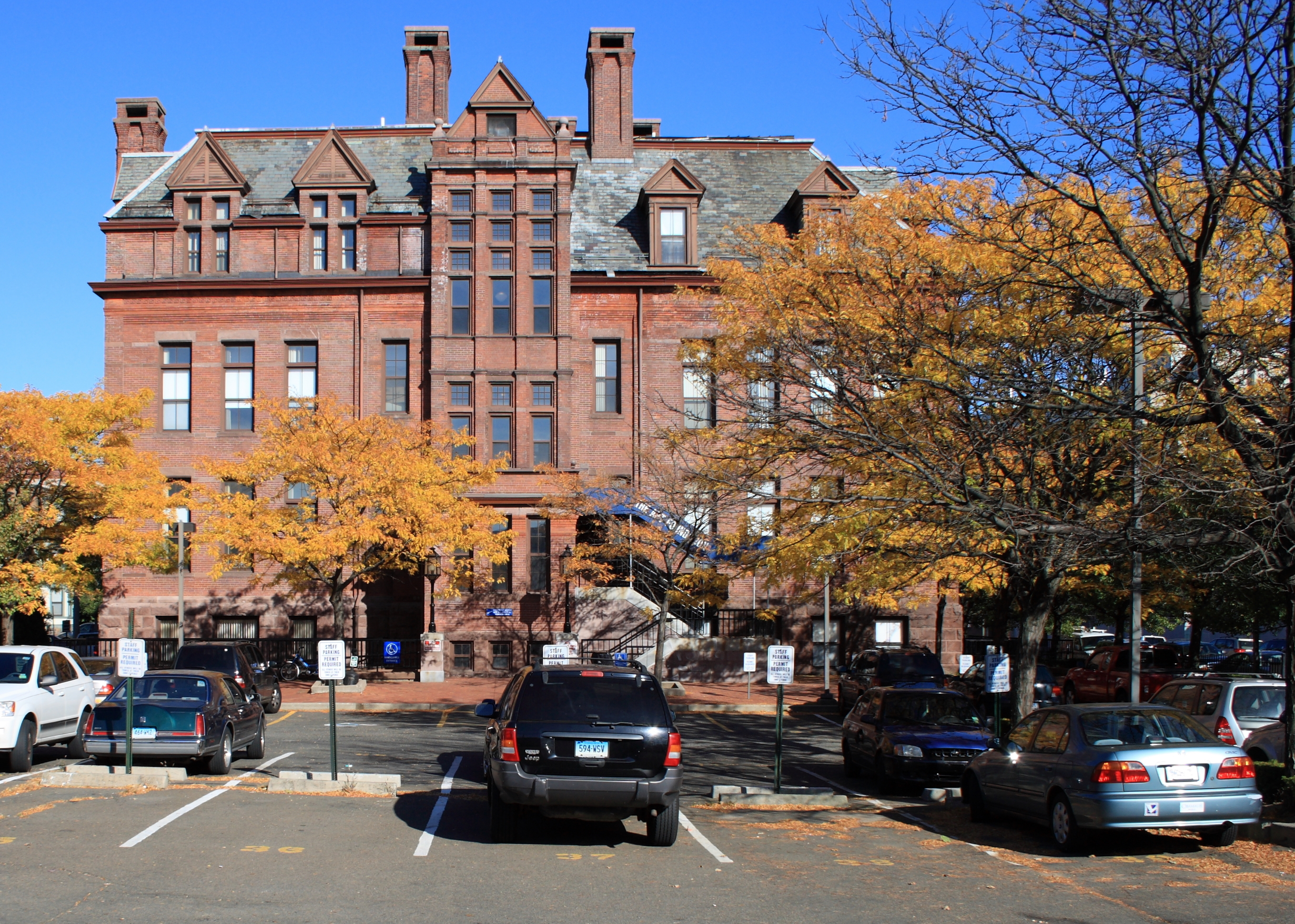 The Welch Training School building, 485 Congress Ave., a Registered Historic Place in New Haven, Connecticut.